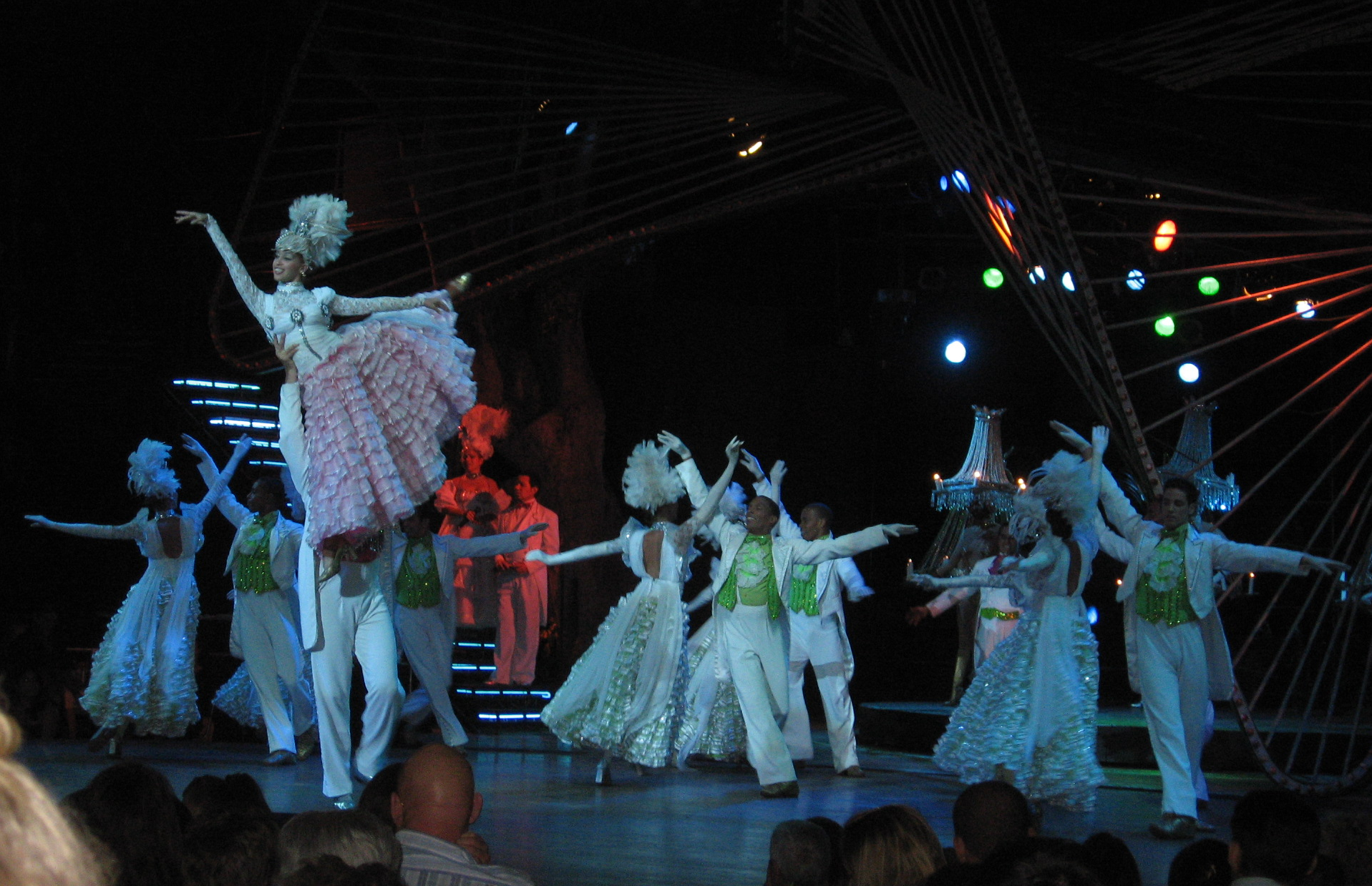 Dancers at the Tropicana Club, Havana, Cuba